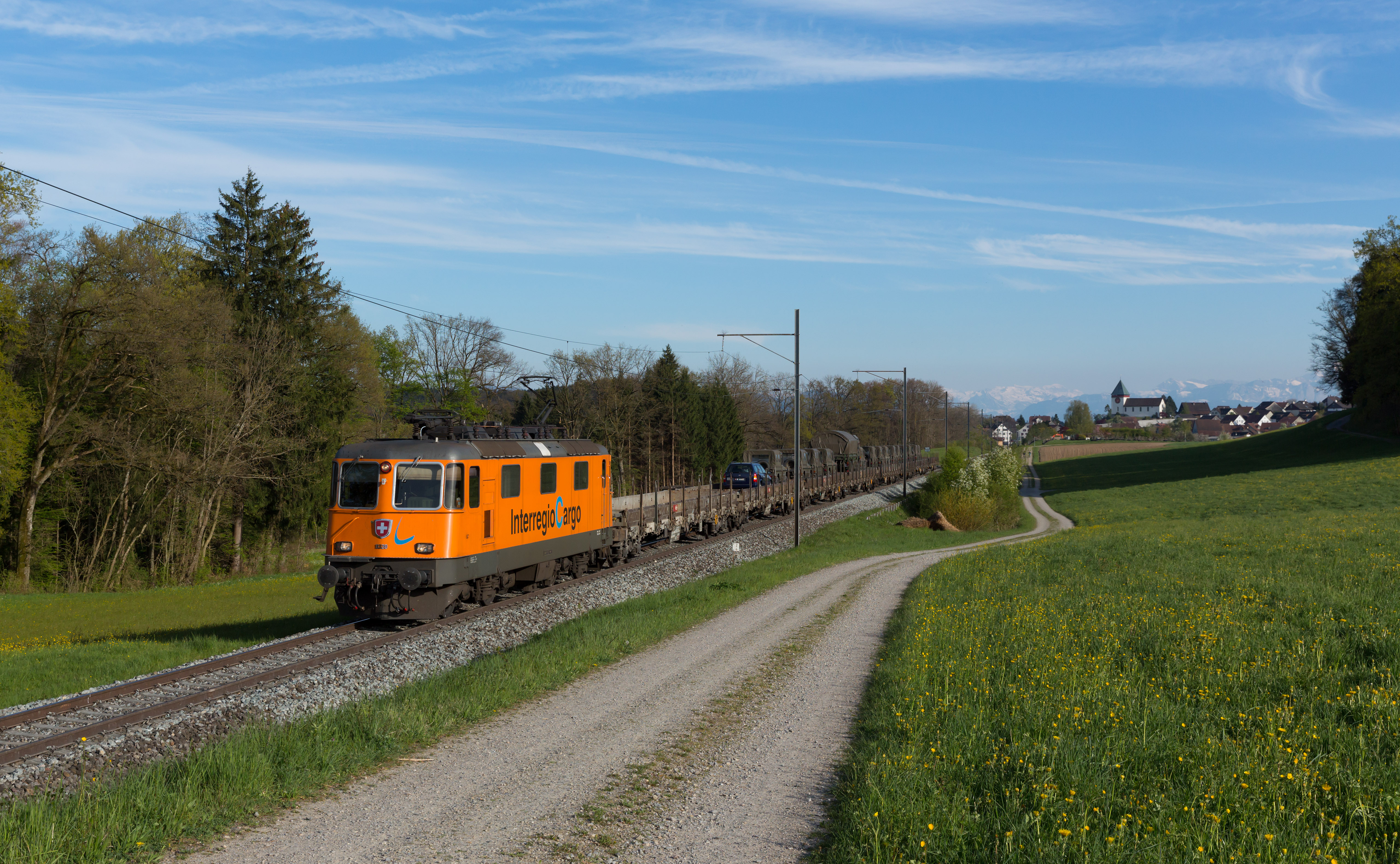 SBB Cargo Re 420 11320 "InterregioCargo" with a freight train carrying vehicles of the swiss army between Illnau and Effretikon, Switzerland.